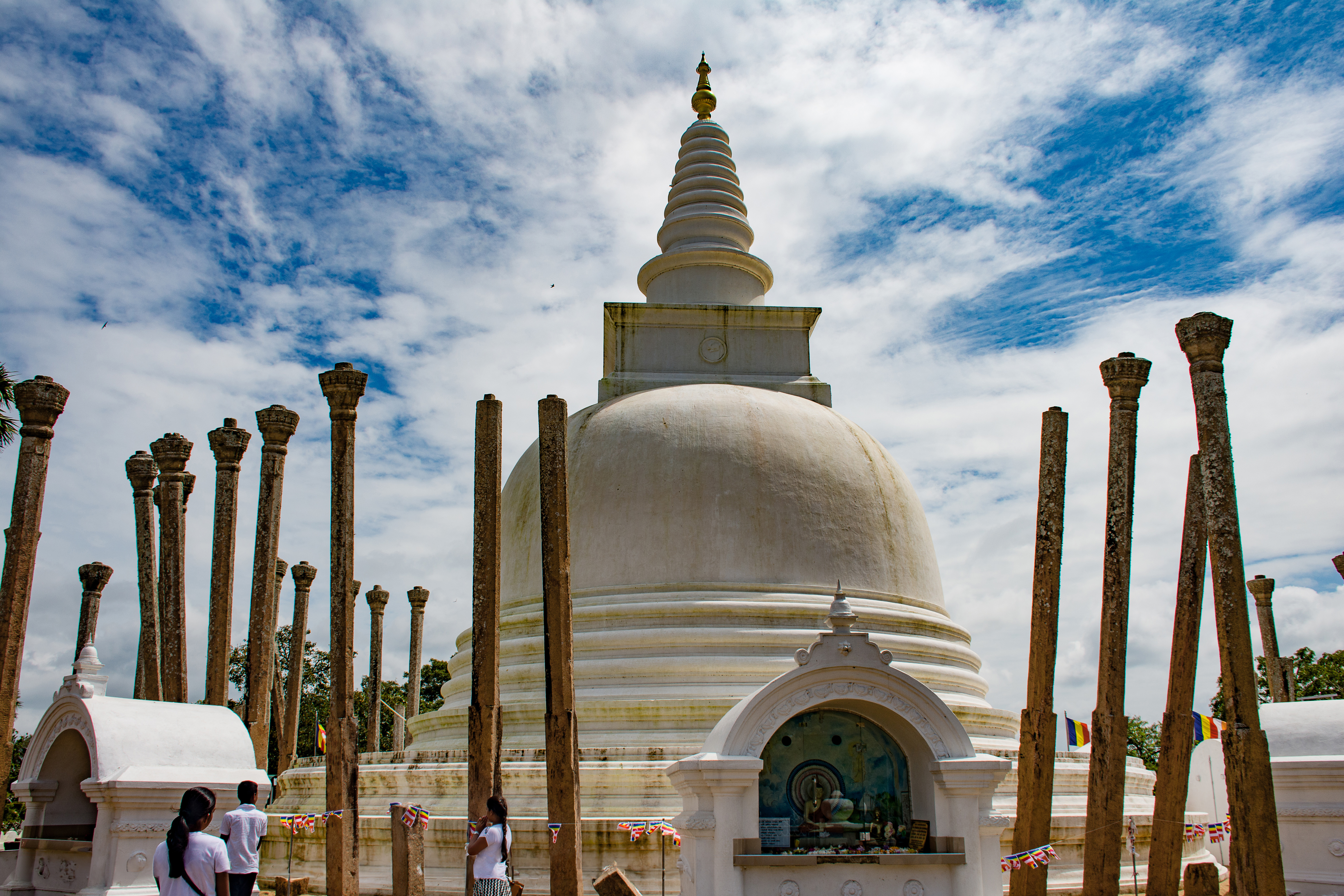 The stone pillars around the stupa was the structural support for a dome that covered the stupa.